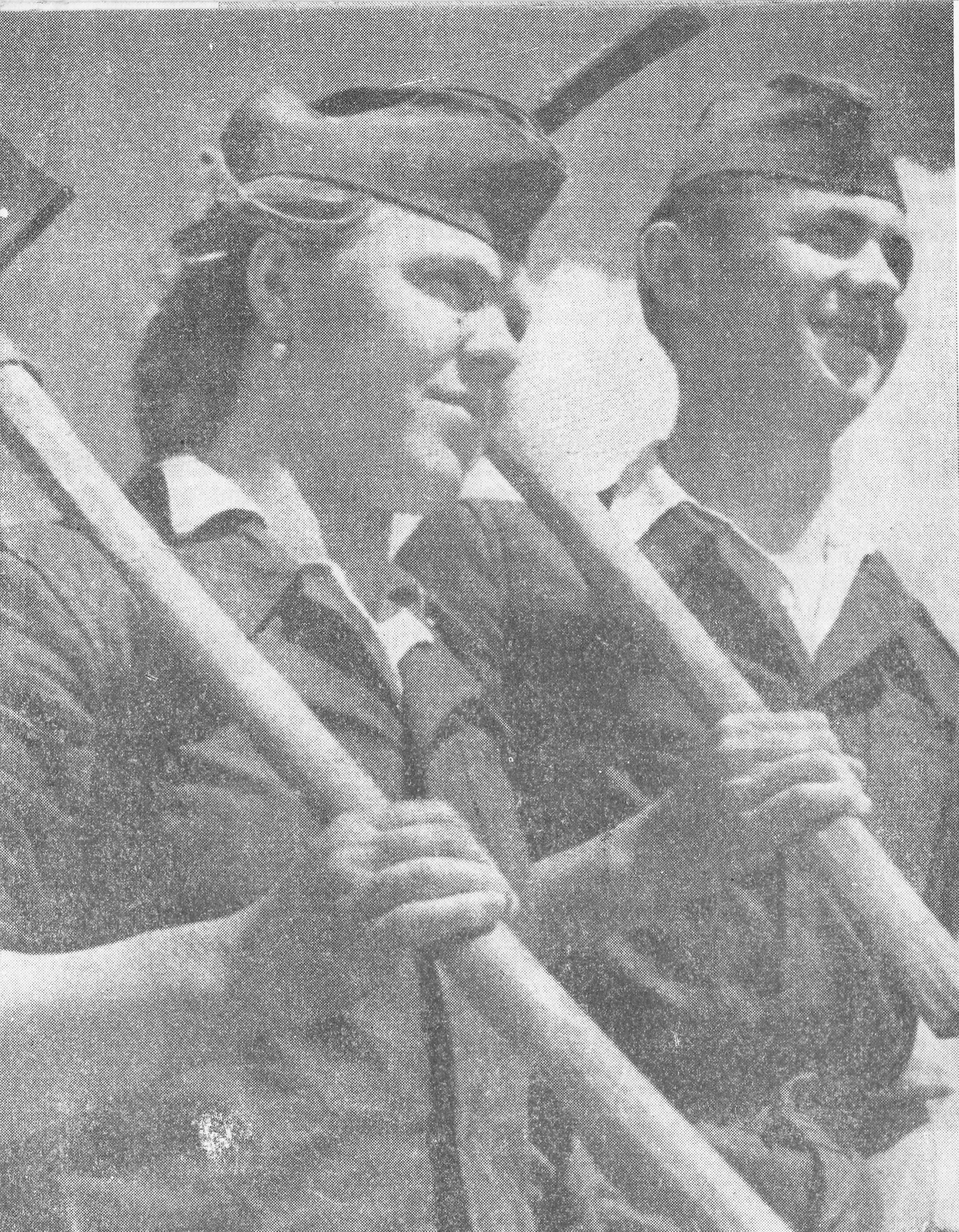 Volunteers building New Belgrade (Yugoslavia, 1948-1950)